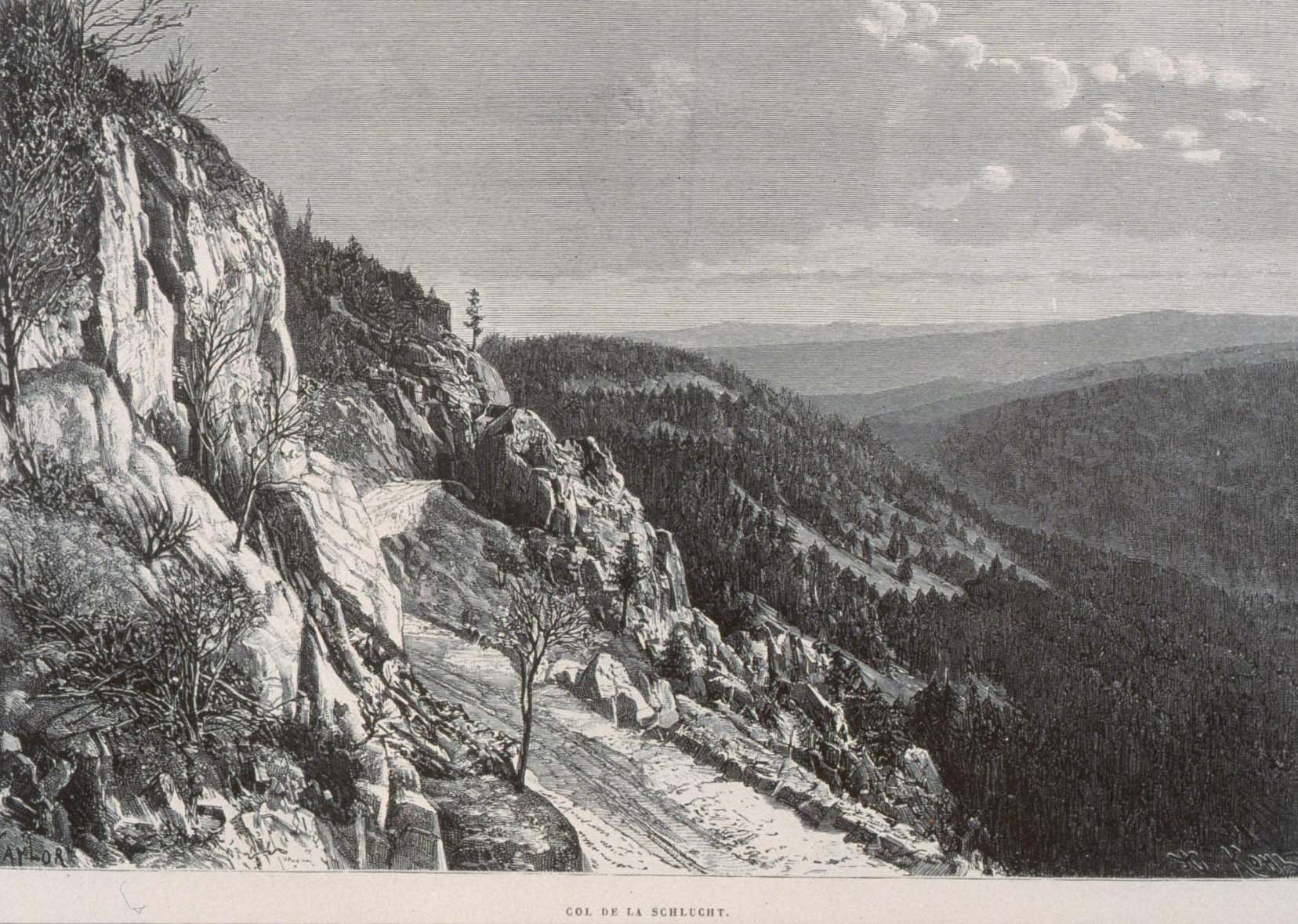 The col at Schlucht, by T. Taylor, Armand Kohl 1888